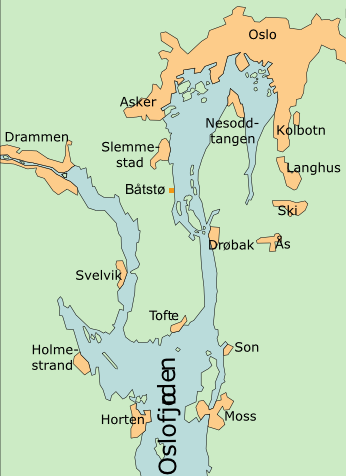 Map of inner Oslofjord, with the small hamlet of Båtstø in different colour. Derivative of a map by Finn Bjørklid.